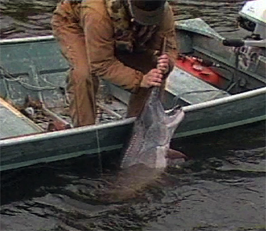 author: Earthwave Society 1994 source: video capture